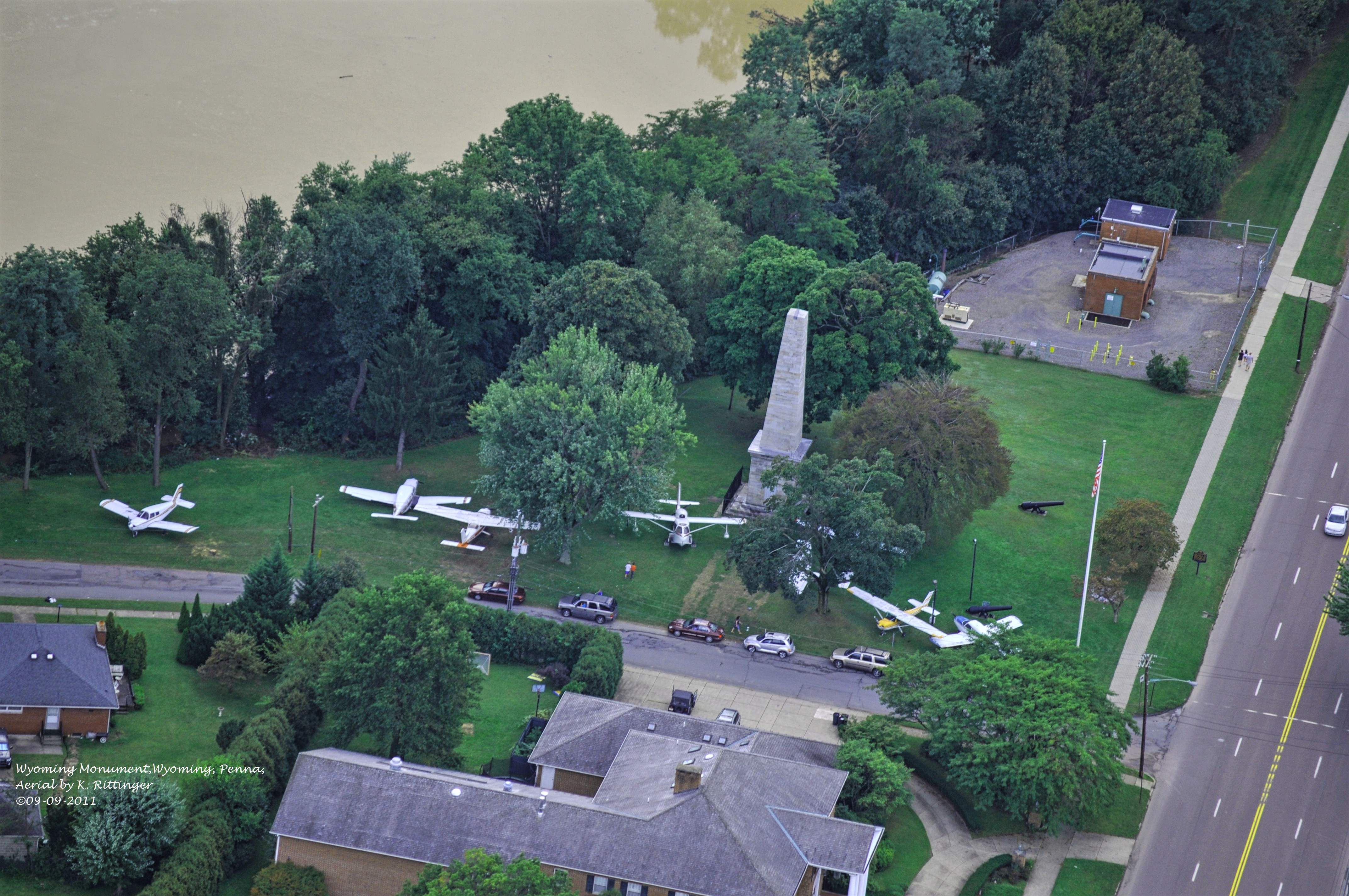 Aerial photo taken by Pilot/Photographer Karl Rittinger Wyoming Monument Wyoming, PA. The monument being higher in elevation then the WBW airport next to Monument AC were towed there to prevent flood water damage . Note high river next to monument